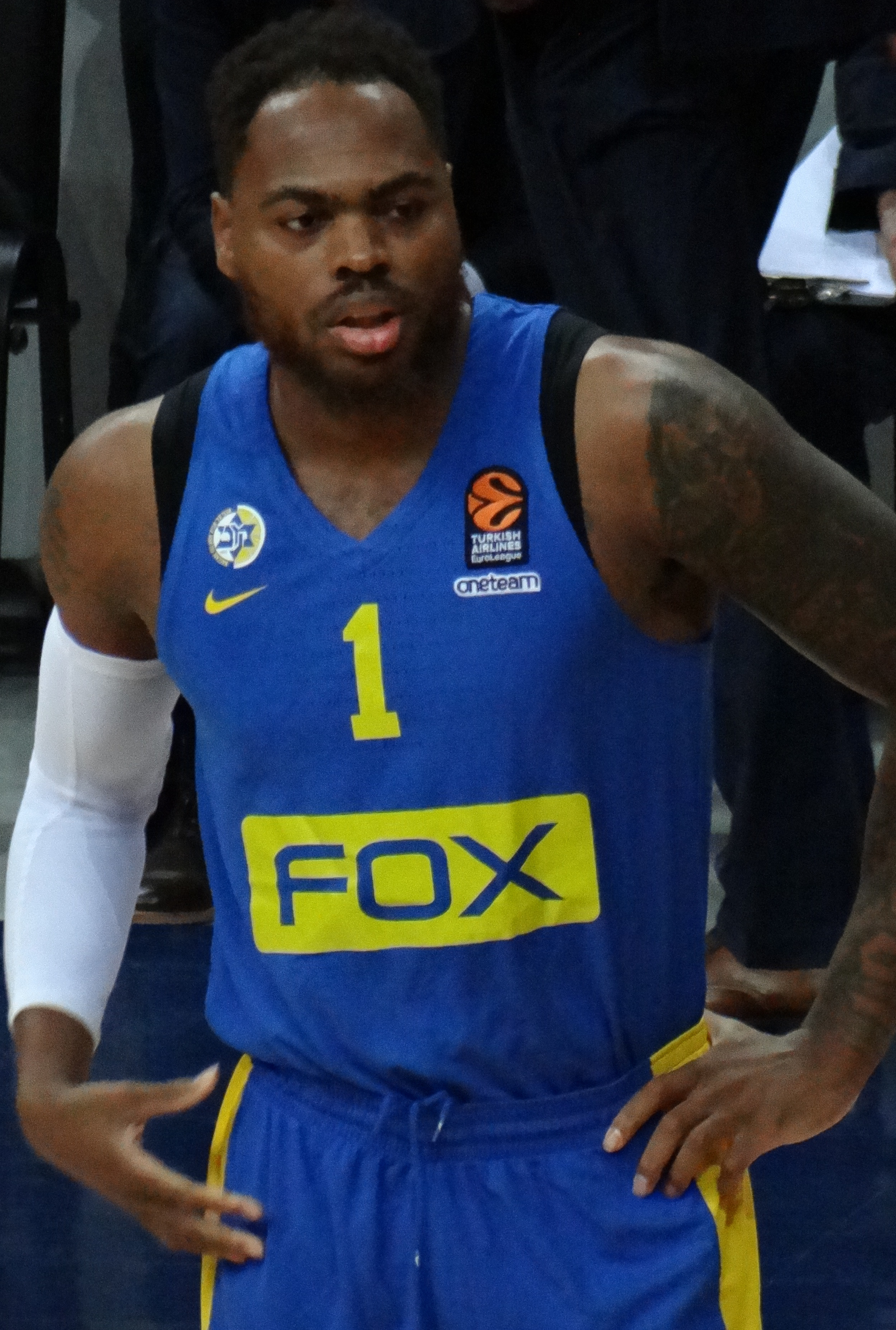 Deshaun Thomas 1 Maccabi Tel Aviv B.C. EuroLeague 20180320